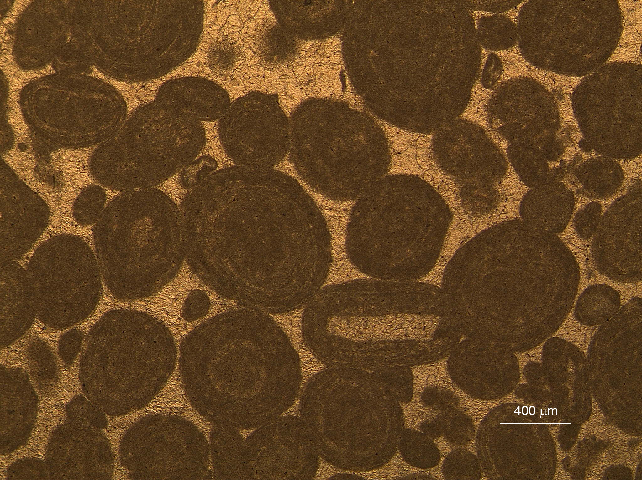 Oolites are a specific type of microspherulites. Oolites are constituent in limestone (sedimentary rock)